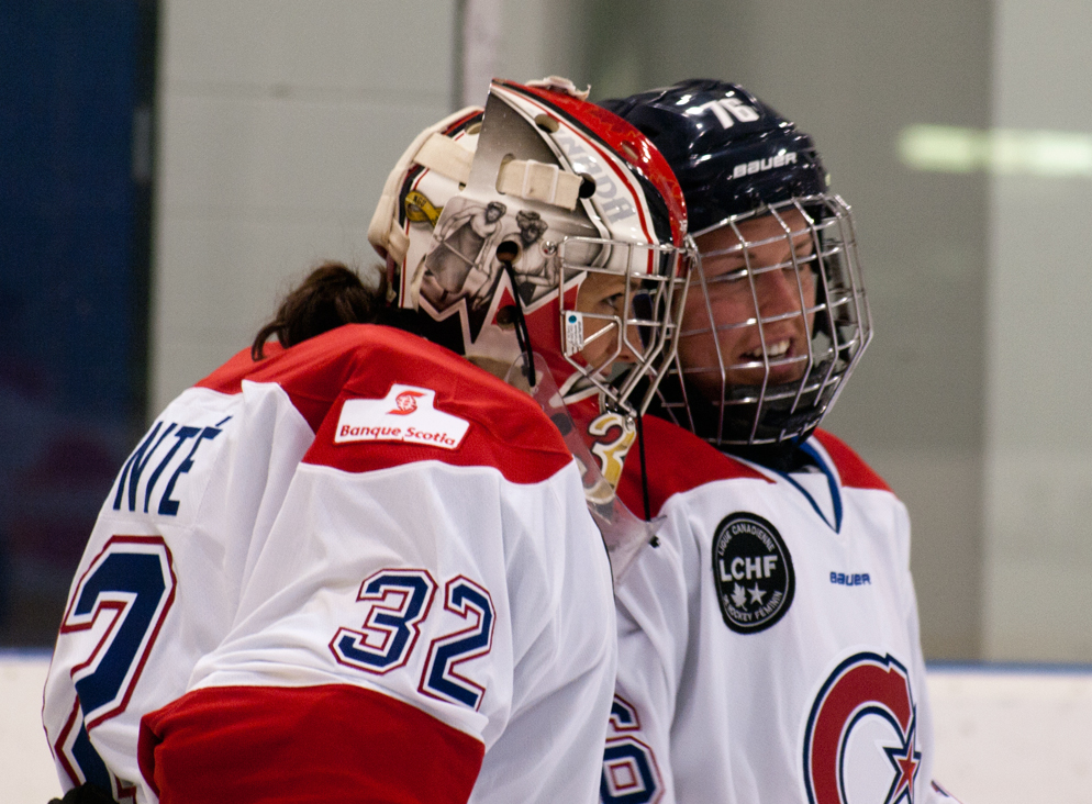 Karell Emard and Charline Labonté